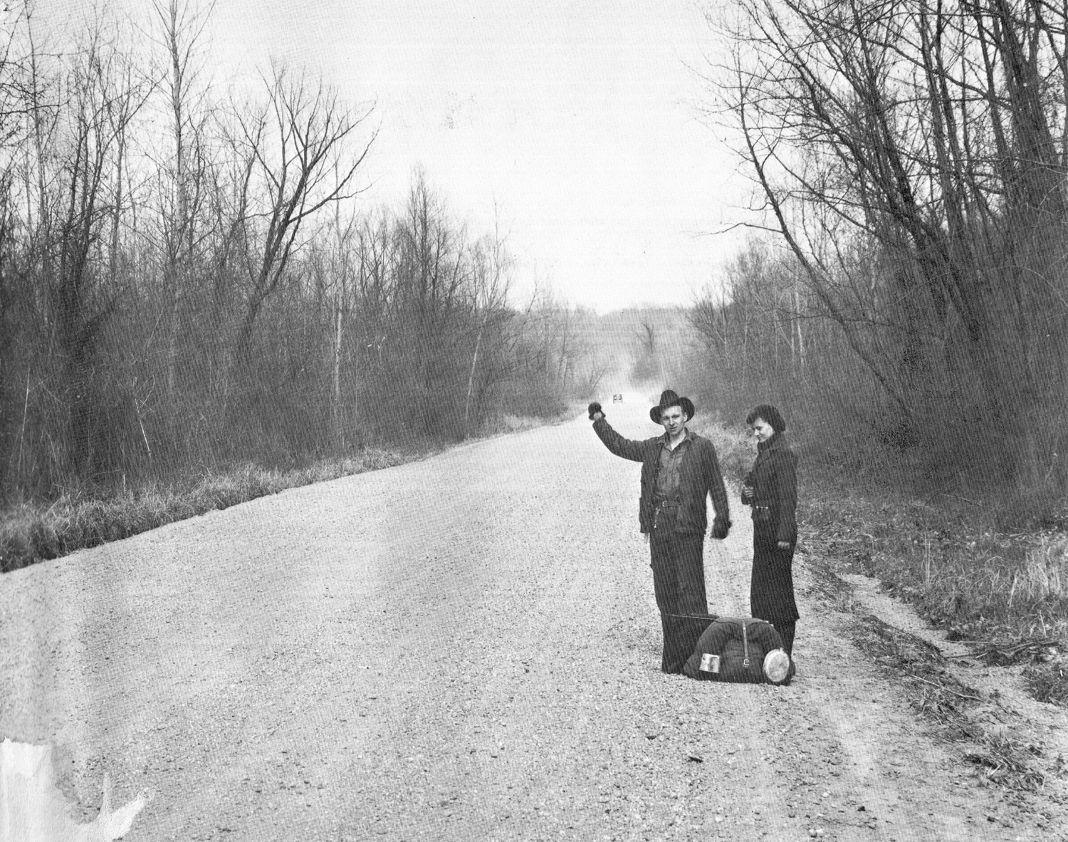 Image by Walker Evans Hitchhidkers Vicksburg (vicinity) March 1936.